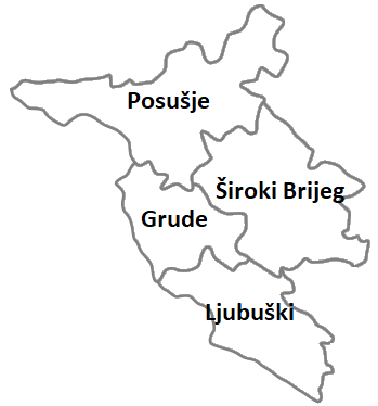 Cities and municipalites of the West-Herzegovina Canton.